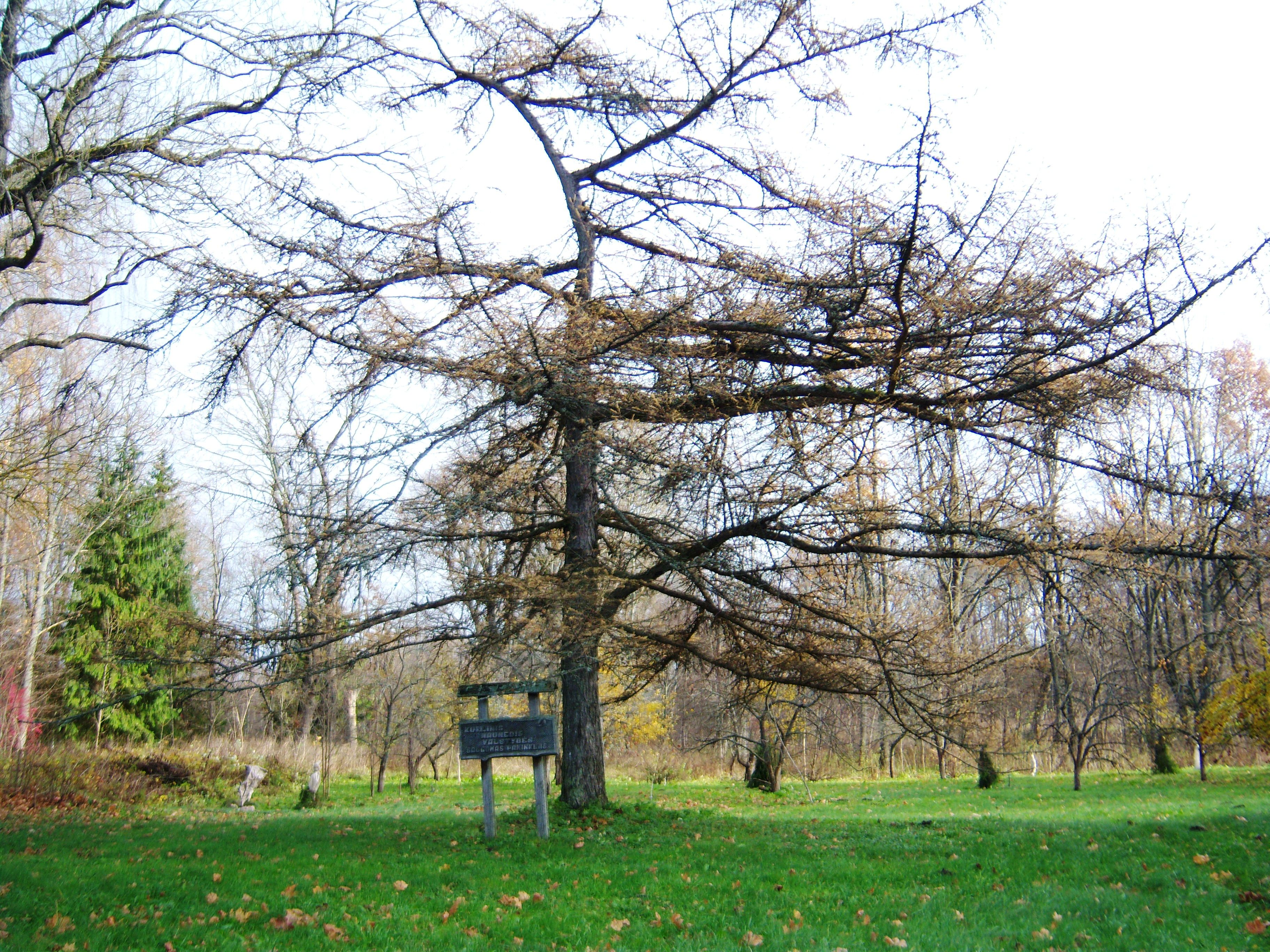 Larix Kurilensis in Stirniškiai, Kupiškis District, Lithuania